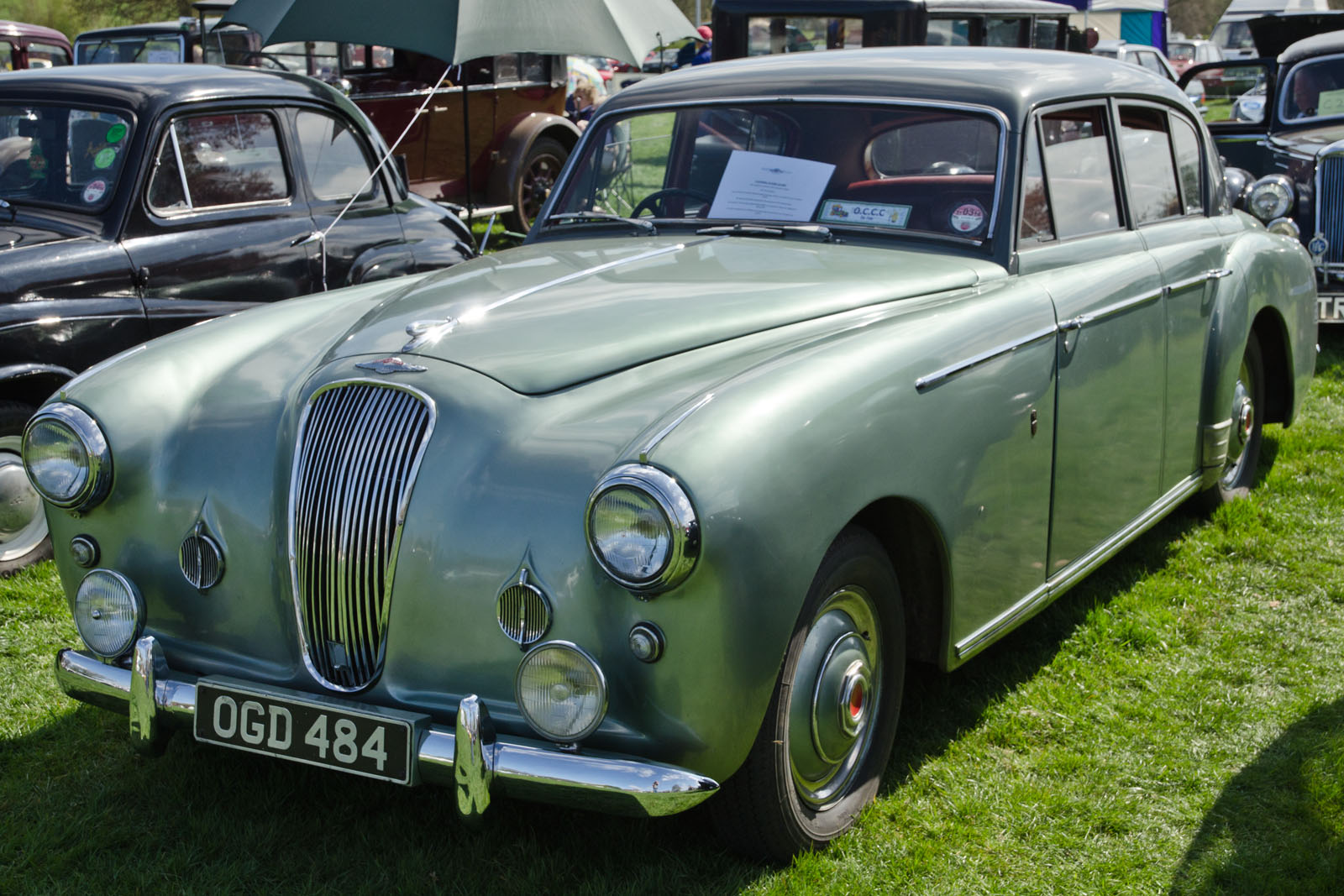 Catton Hall Classic Car Show 05/05/2013